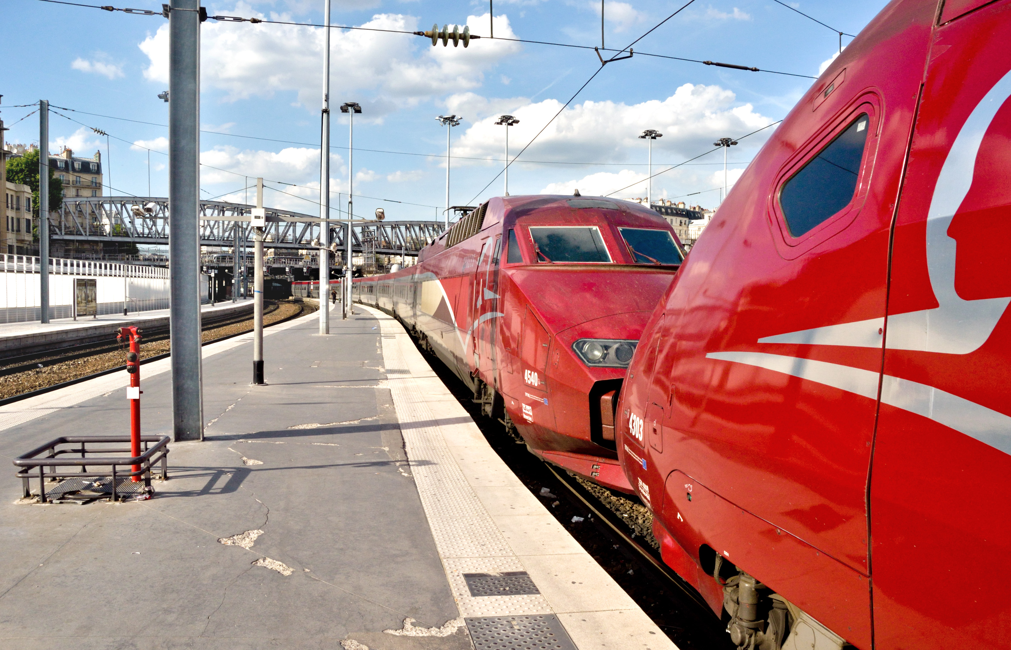 Thalys in Gare de Paris-Nord